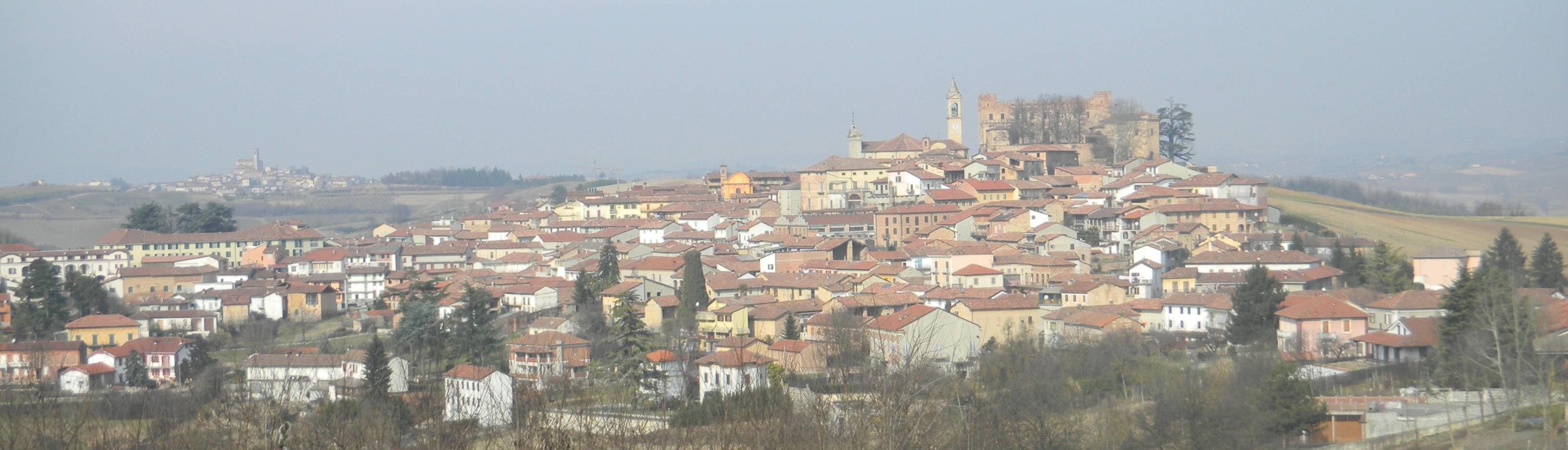 Landscape of Montemagno (Asti, Italy)